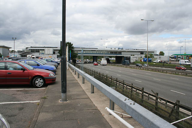 Leicester Forest East Service Area, M1